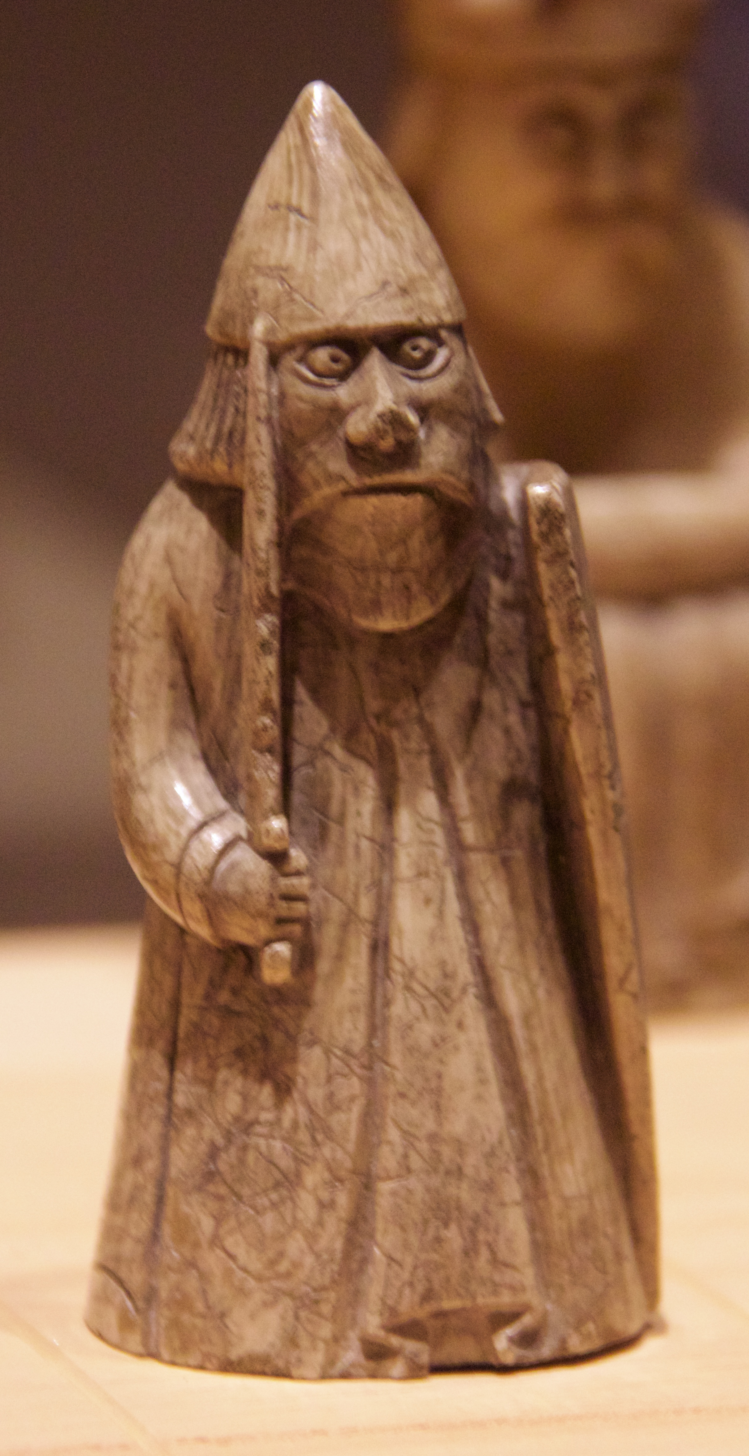 A cropped version of File:Lewis chessmen, National Museum of Scotland 2.jpg.